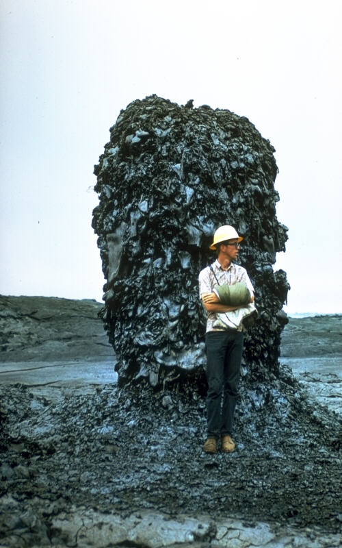 Hornito formed on a pahoehoe flow during the Mauna Ulu eruption